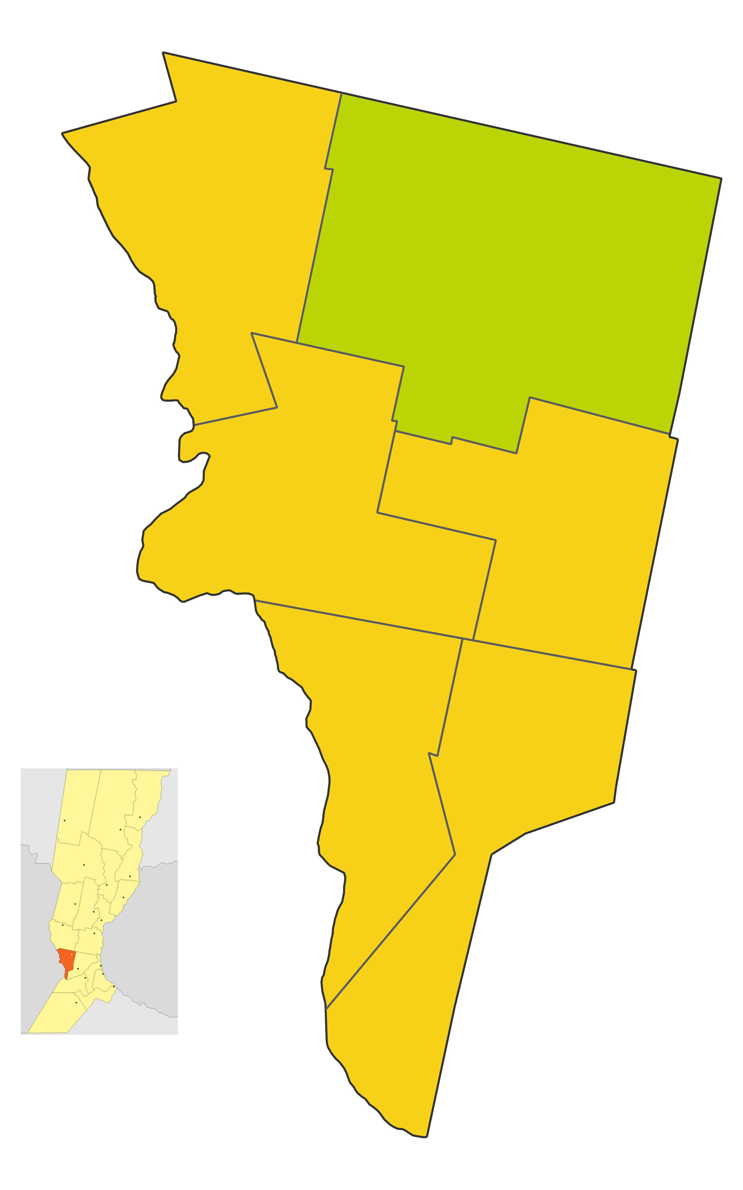 Map of the municipio Las Rosas in Belgrano department, Santa Fe province, Argentina